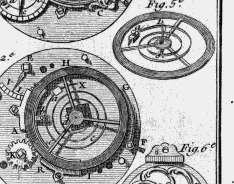 Illustration of a balance wheel in an early watch, by Ferdinand Berthoud. Alterations: Detail cropped from drawing showing entire watch disassembled.